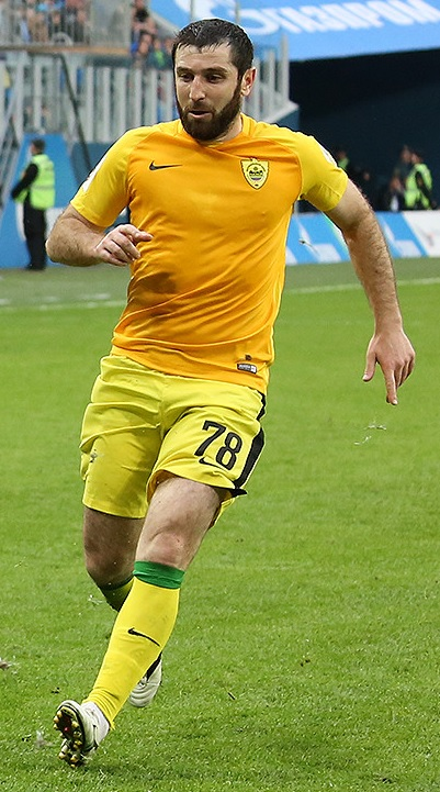 Mikhail Bakayev with FC Anzhi Makhachkala in a game against FC Zenit St. Petersburg.